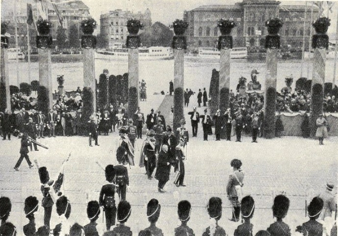 From President Relander's visit to Stockholm. The president and King Gustaf are passing the honorary company.